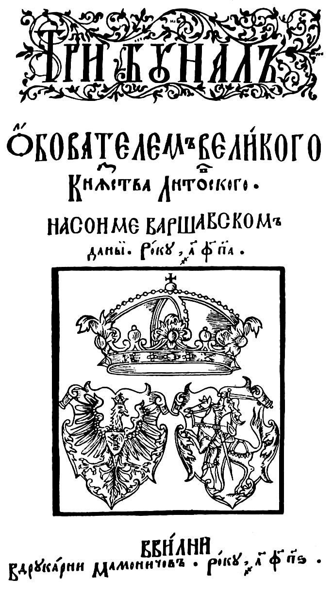 Tribunal of Grand Duchy of Lithuania, Vilna